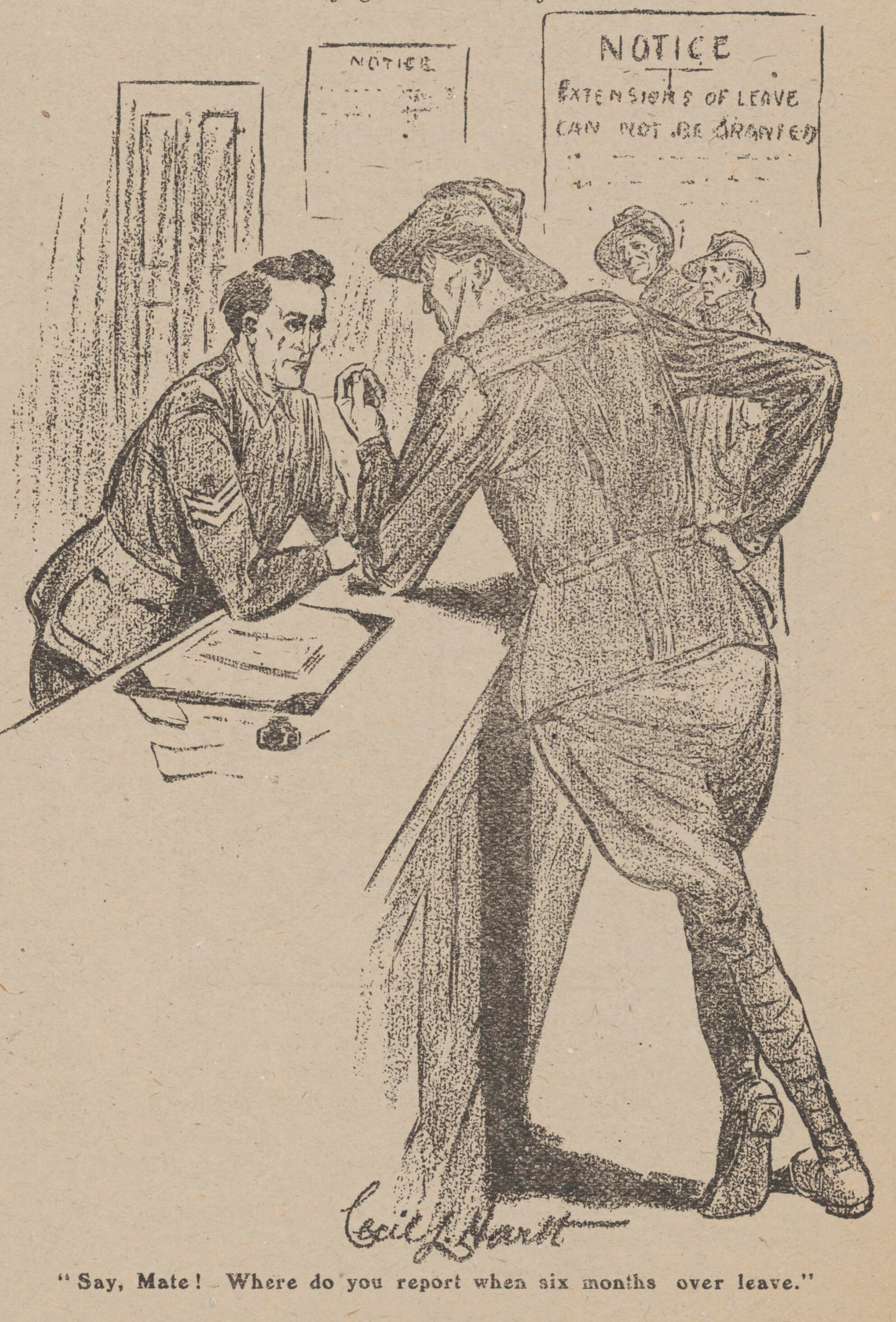 A cartoon from the first edition of The Dinkum Australian by Cecil Lawrence Hartt (then a soldier in the Australian Imperial Force) making light of the high rate of Australian soldiers going absent without leave.